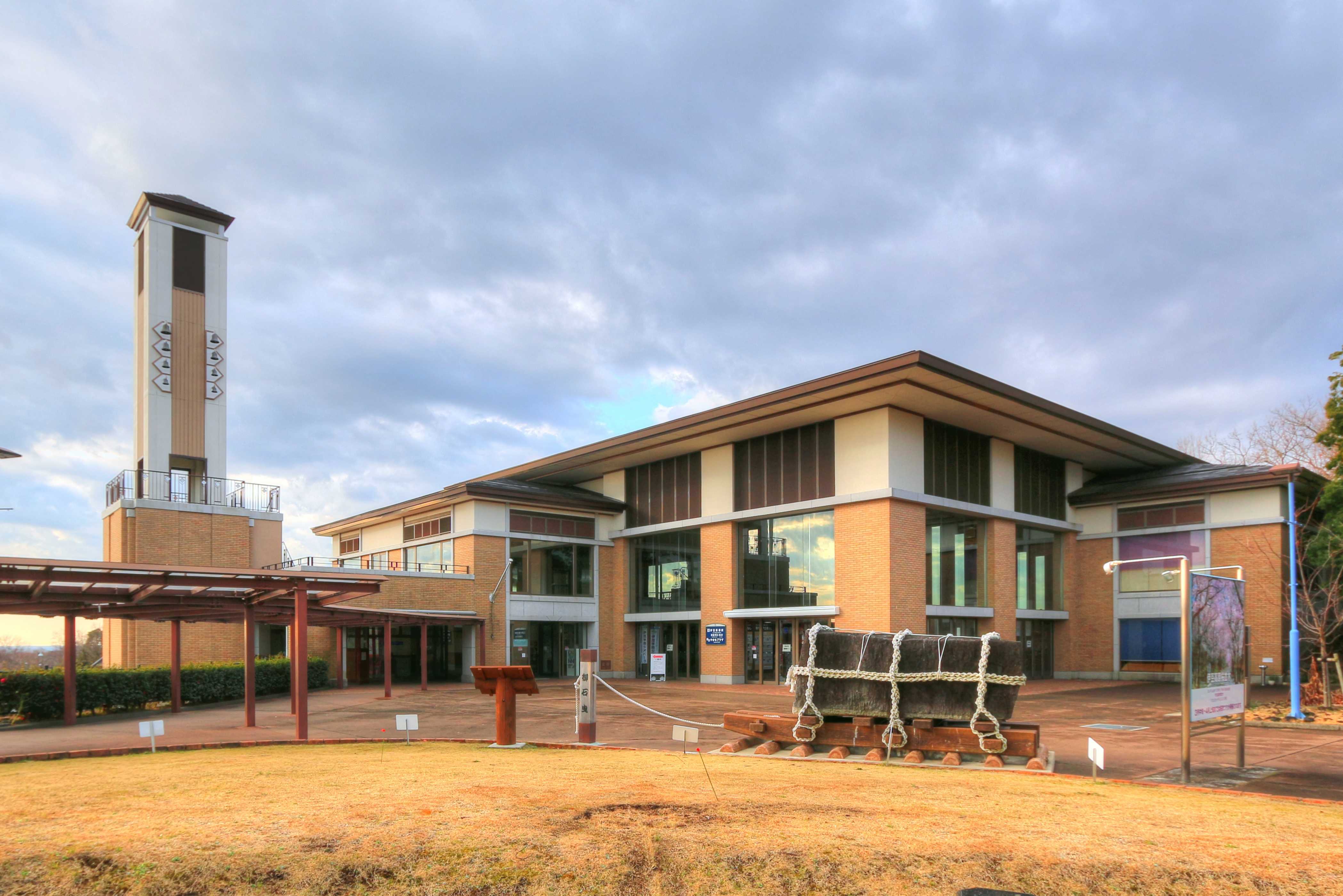 Izu-Kogen Station in Shizuoka Prefecture, Japan